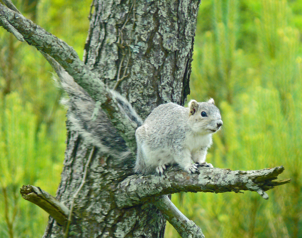 endangered Photo: Larry Meade, Creative Commons Chincoteague National Wildlife Refuge, VA This endangered squirrel also occurs at MD's Blackwater and Eastern Neck National Wildlife Refuge